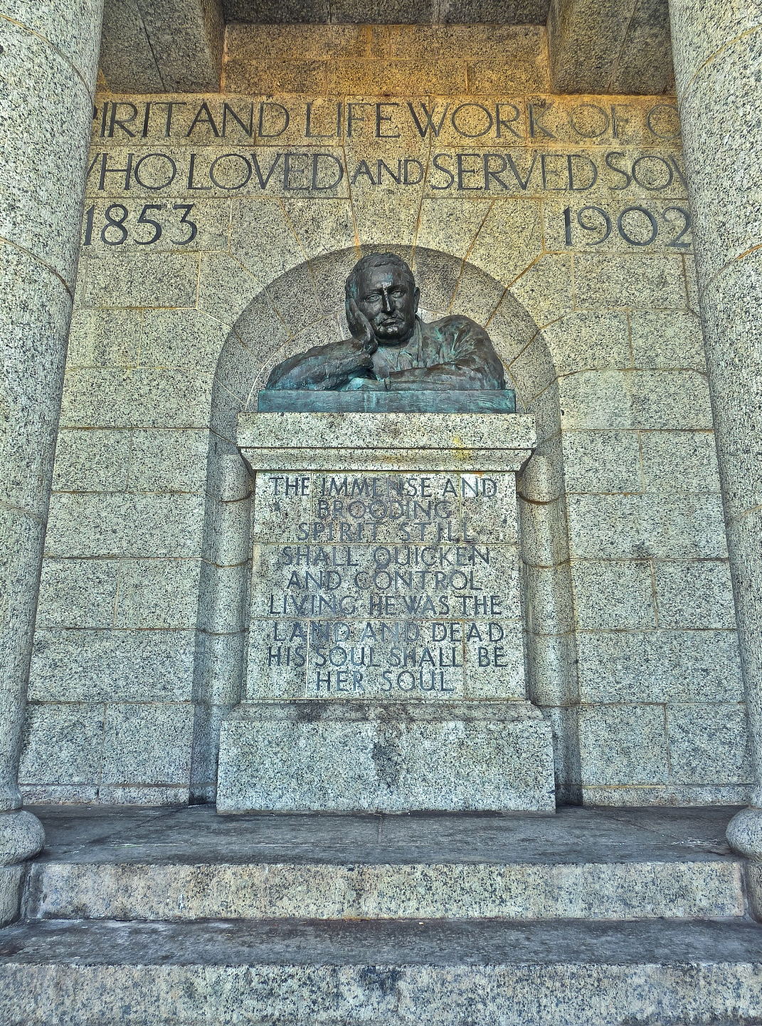 Rhodes Memorial on Devil's Peak in Cape Town, South Africa, is a memorial to English-born South African politician Cecil John Rhodes (1853–1902) designed by Sir Herbert Baker. This media shows a South African Protected Site with SAHRA file reference NEW.